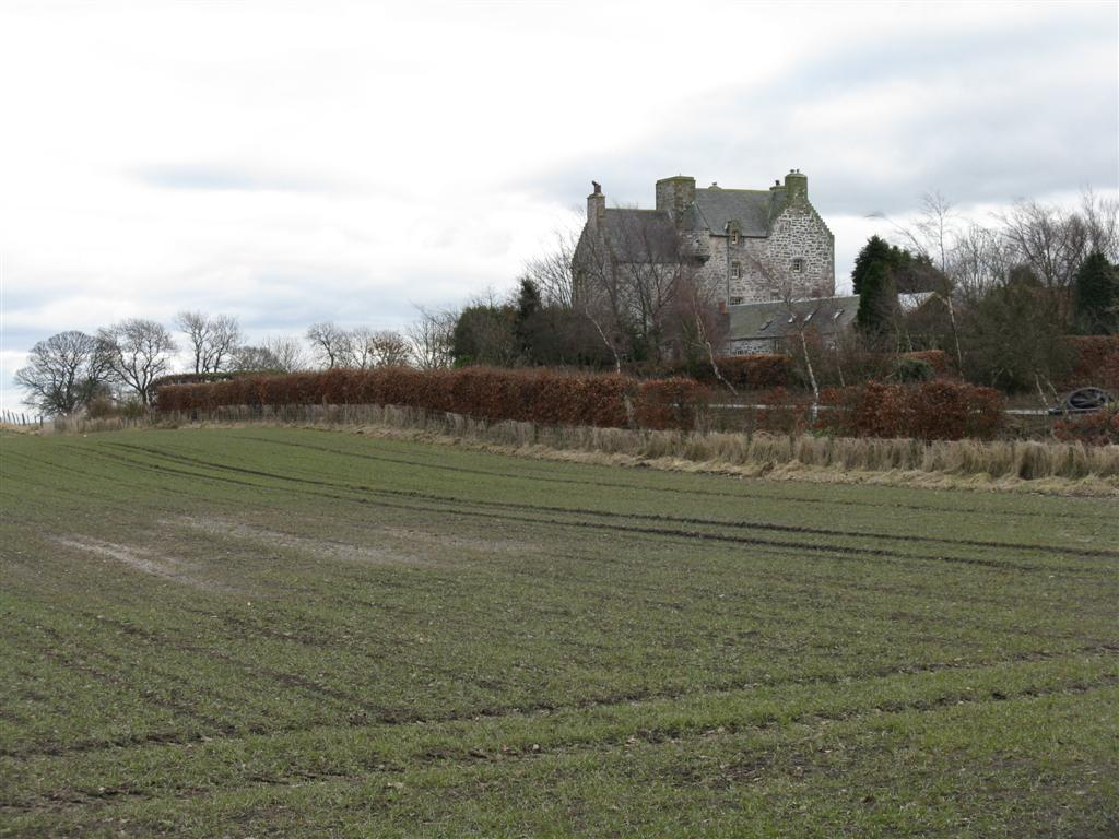 Ochiltree in winter Large tower house in a prominent ridge-top position.